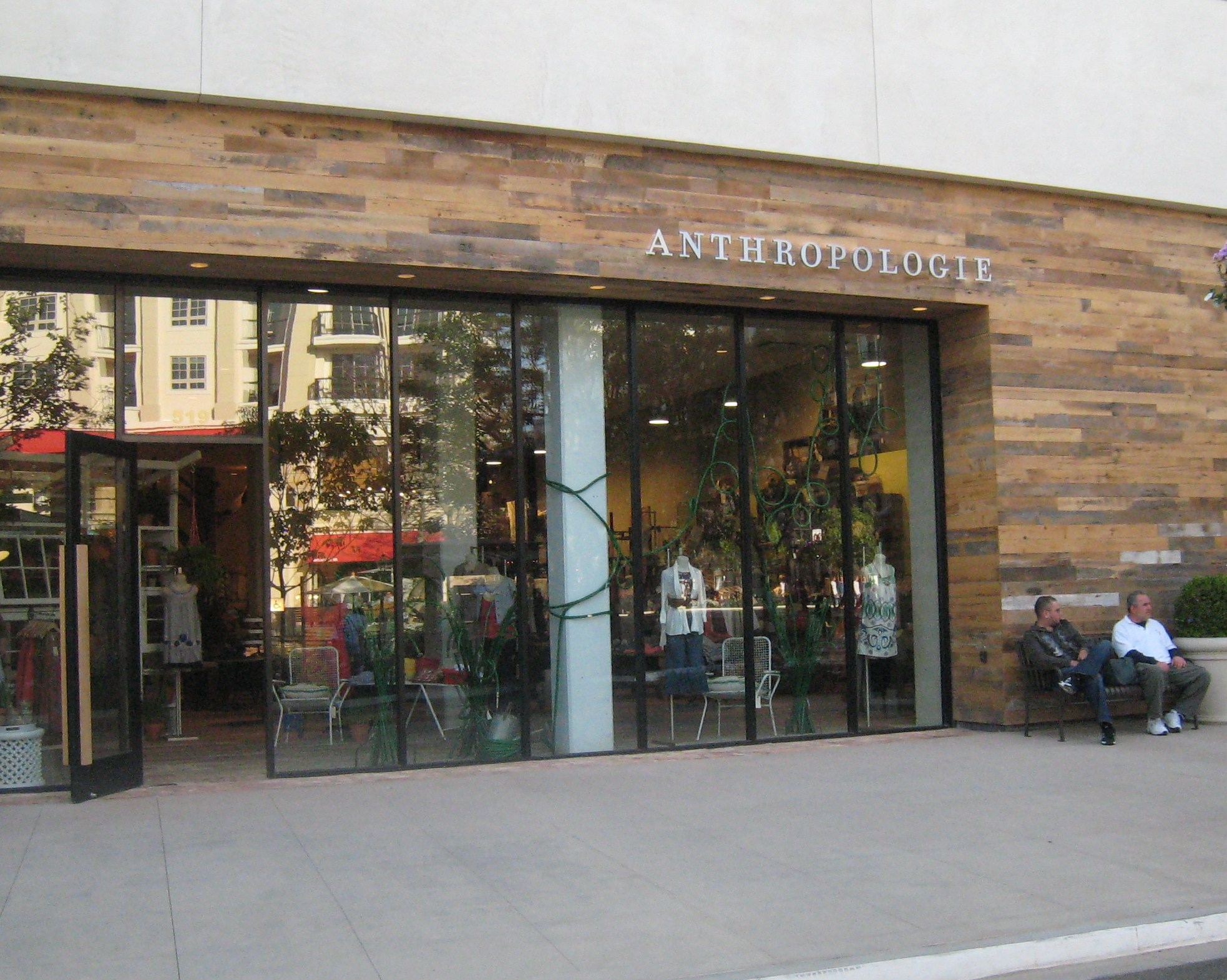 Anthropologie store Americana at Brand shopping mall in Glendale, California